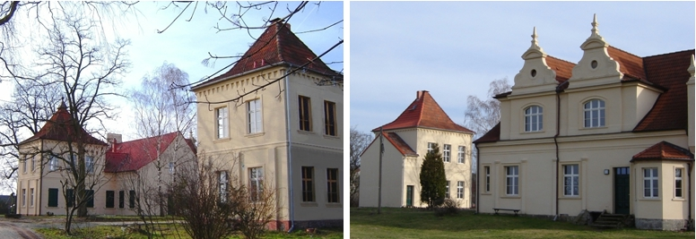 Palace in Zerben, Saxony-Anhalt